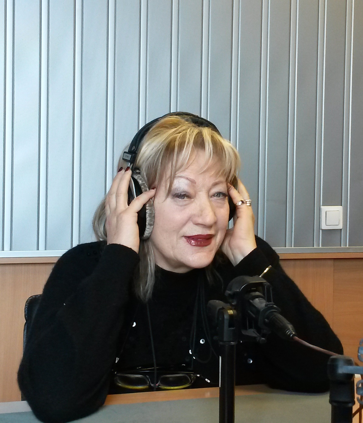 Bulgarian pop singer Ani Vurbanova.